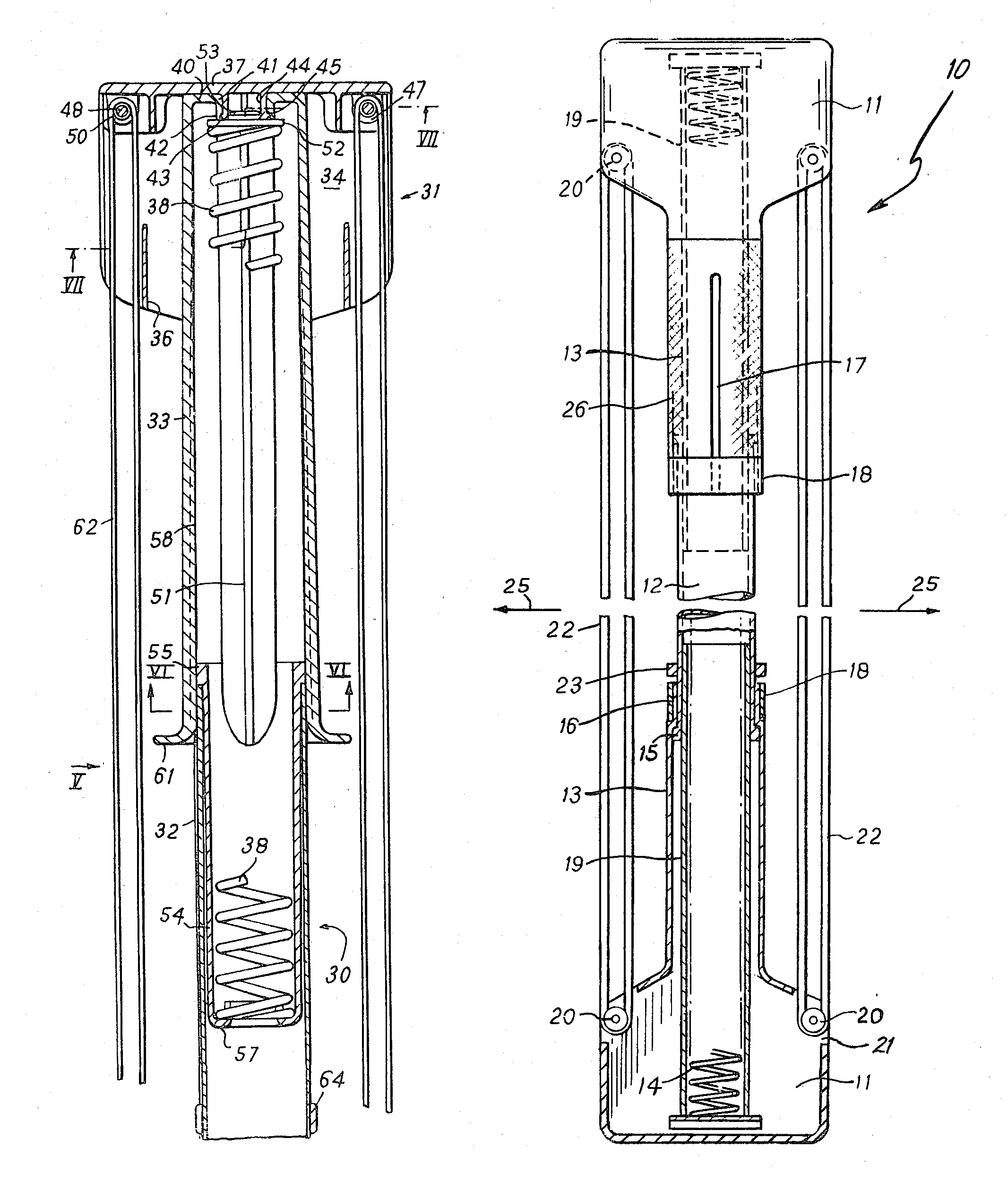 Image of the Bullworker X5 from the US patent (1981)